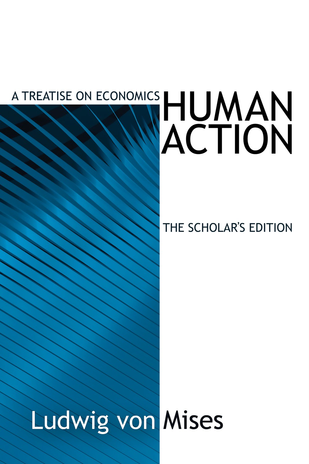 Cover of the scholar's edition of Human Action by Ludwig von Mises